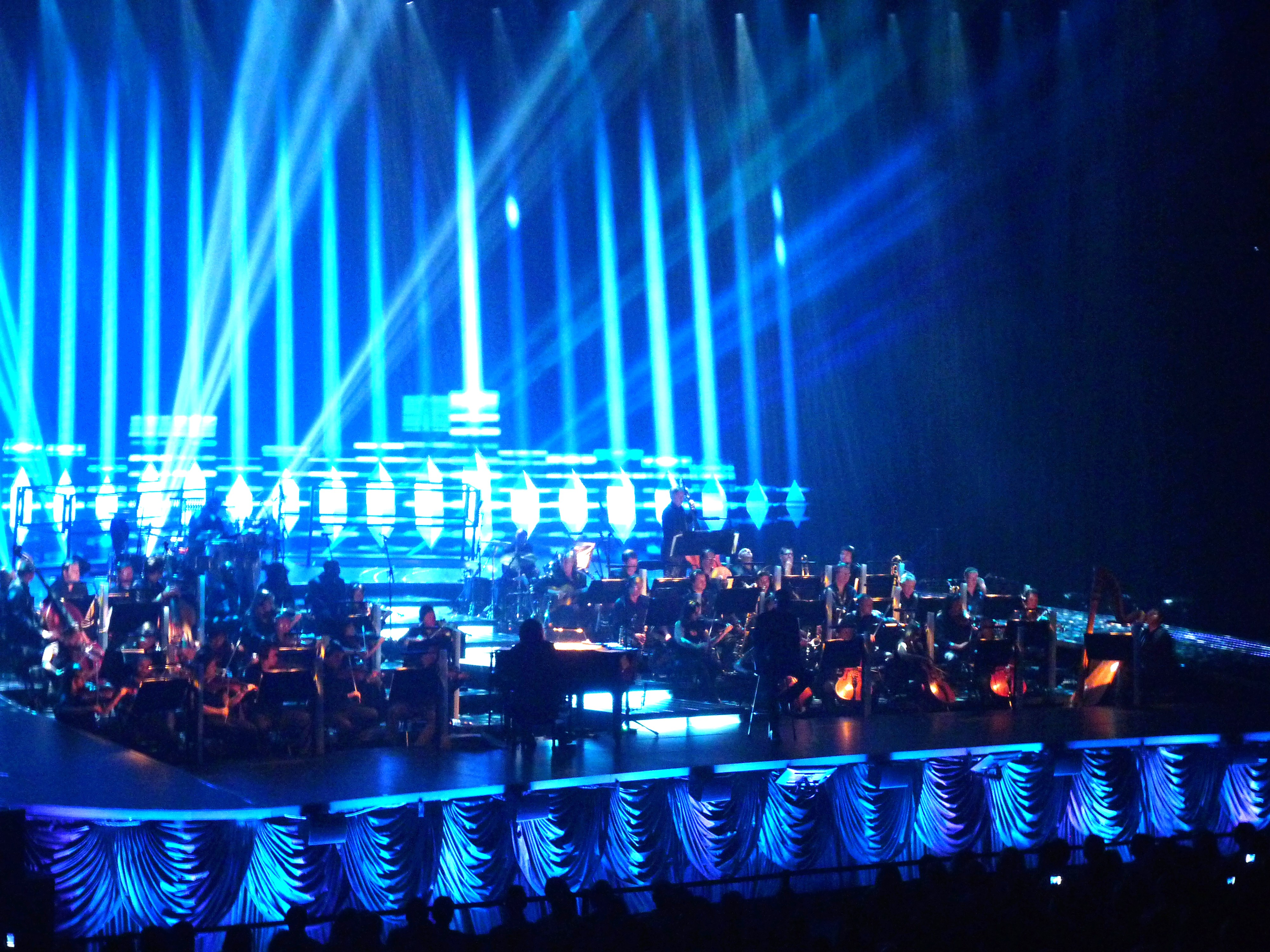 George Michael's symphony orchestra at the Palais Nikaia (Nice, France), in 2011.